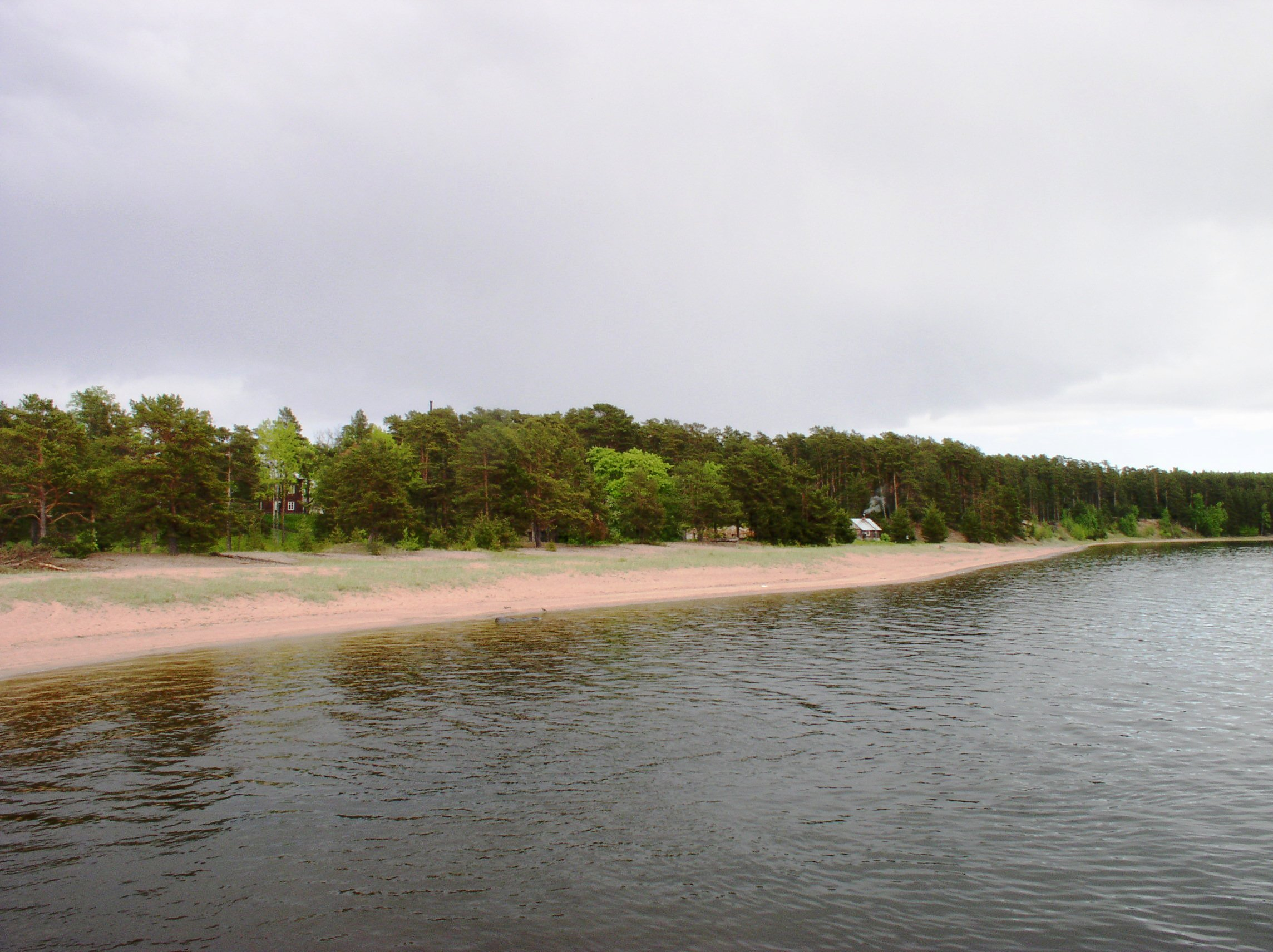 Sandy beach typical of Konevets Island photographed from the quay of the monastery to east.